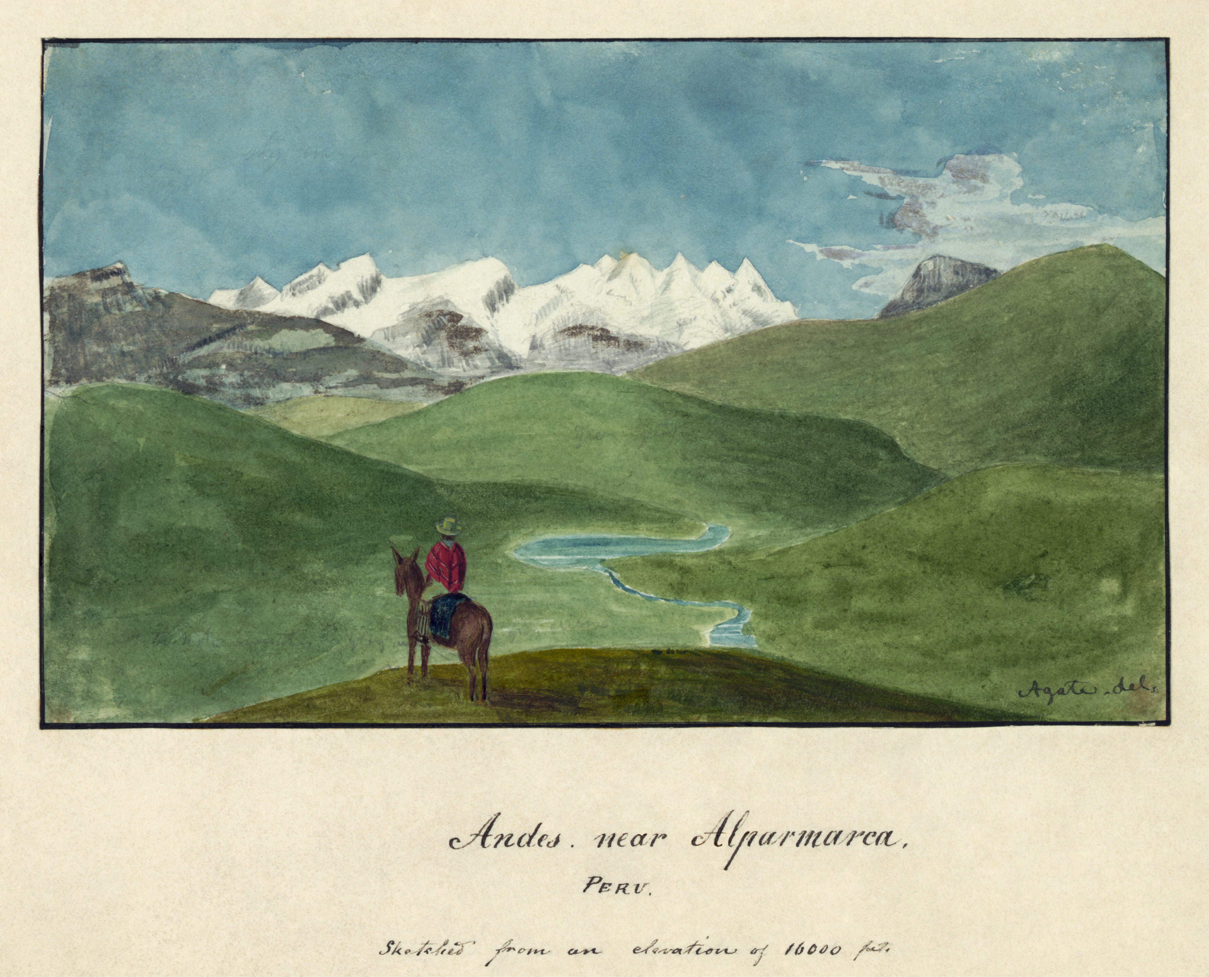 "Andes, near Alparmarca (i.e. Alpamarca), Peru", "Drawing shows a man on horseback, his back to the viewer, facing toward the Andes Mountains. Alfred Agate participated in the Charles Wilkes expedition to western North America, South America, Australia and the South Pacific from 1838 to 1842." "1 drawing : watercolor, gouache, lead white, and ink over graphite underdrawing"